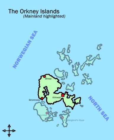 Map of the Orkney Islands, with the Orkney mainland highlighted